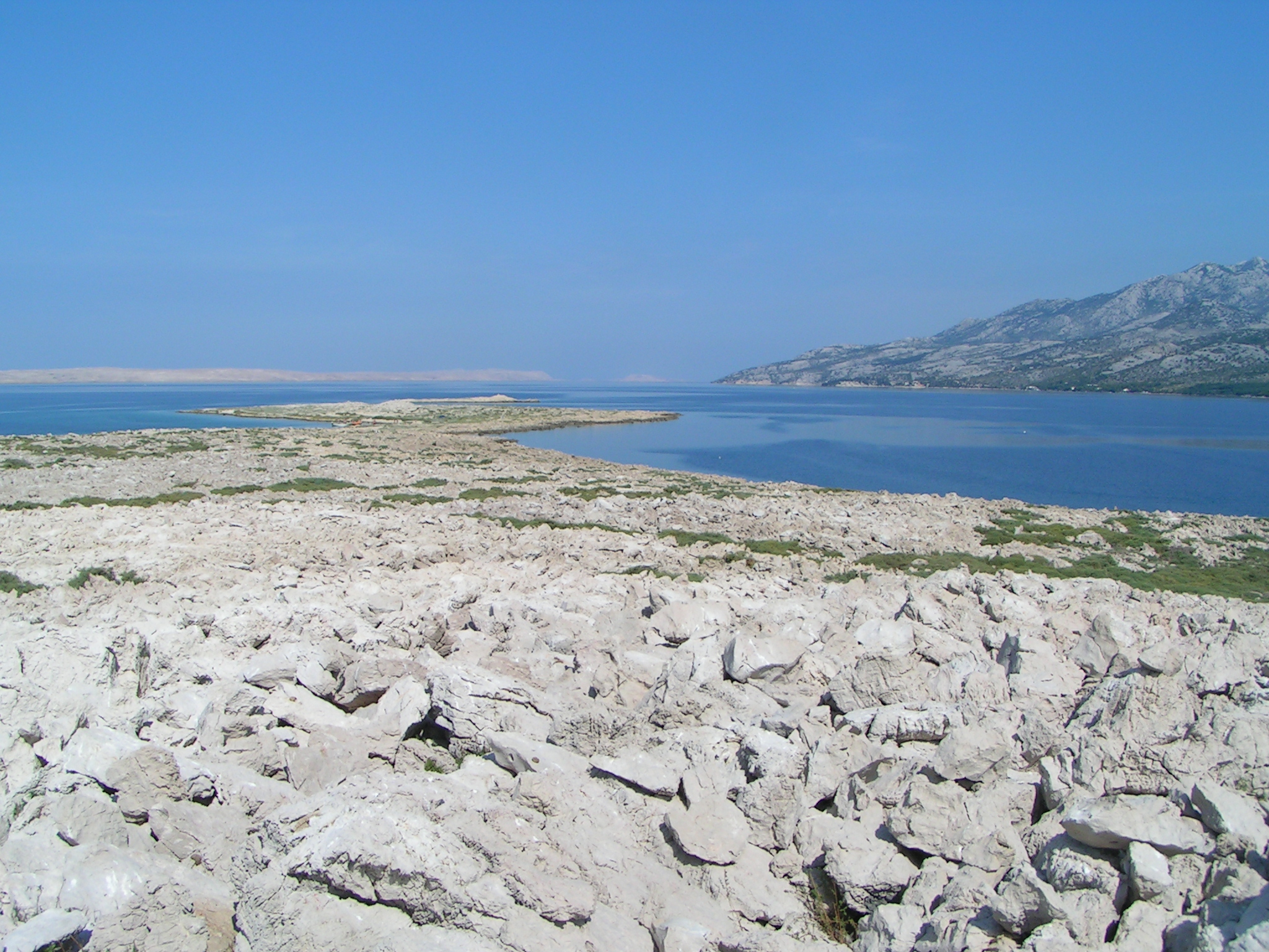 Rocks on the islet of Veli Ražanac.